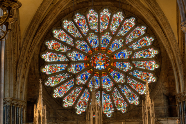 Rose window — Durham Cathedral. This is a shot of the Rose window from inside the cathedral, in County Durham.